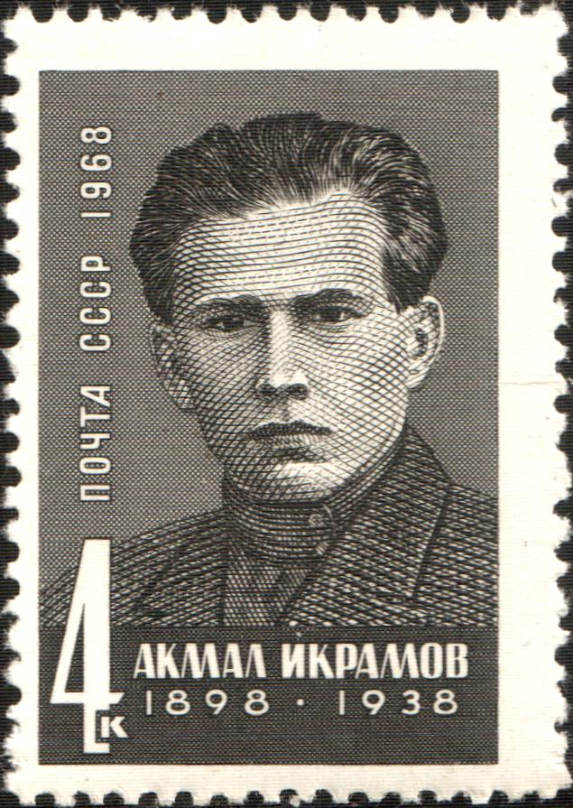 Stamp of the Soviet Union, Akmal Ikramov (1898-1938), Soviet politician from Central Asia, 1968.